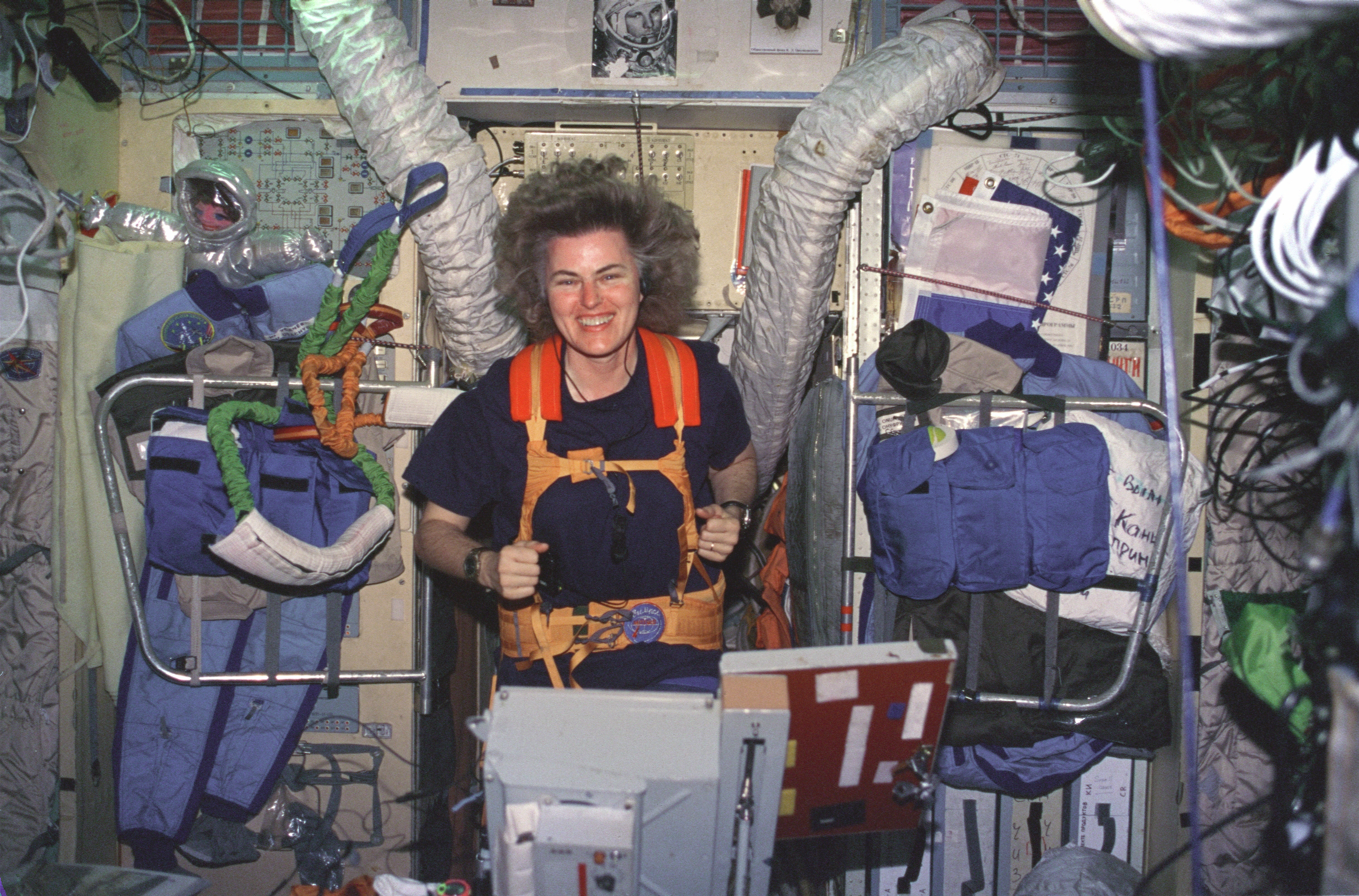 Astronaut Shannon Lucid exercises on a treadmill which has been assembled in the Russian Mir space station Base Block module.